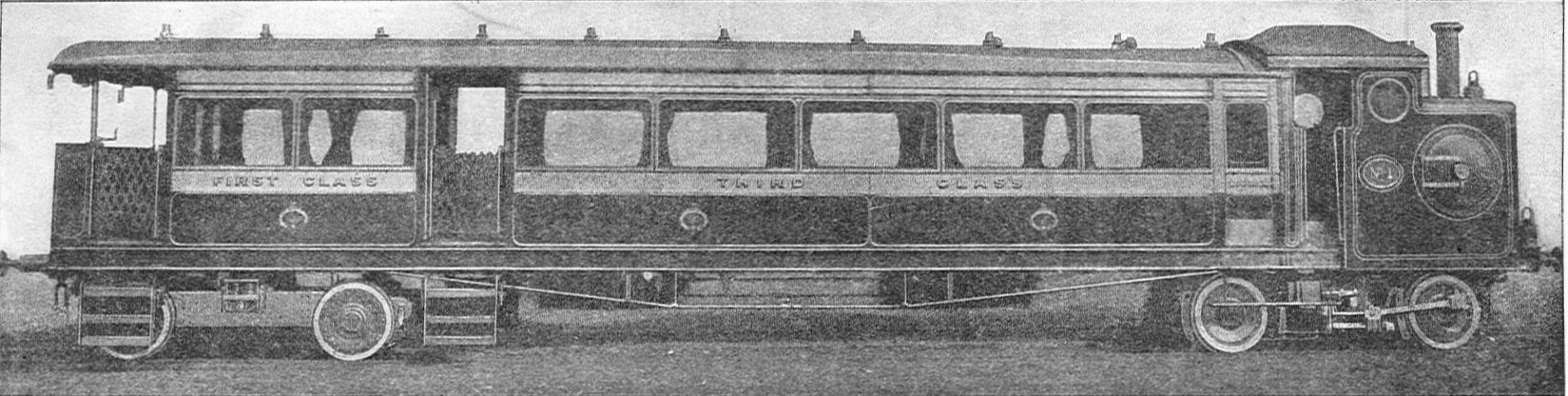 Fig. 206 Steam Railway Motor Car Used on the Cardiff, Penarth & Cogan section of the Taff Vale Railway. 12 1st class, 40 3rd class passengers. Built to the design of T. Hurry Riches, locomotive engineer.